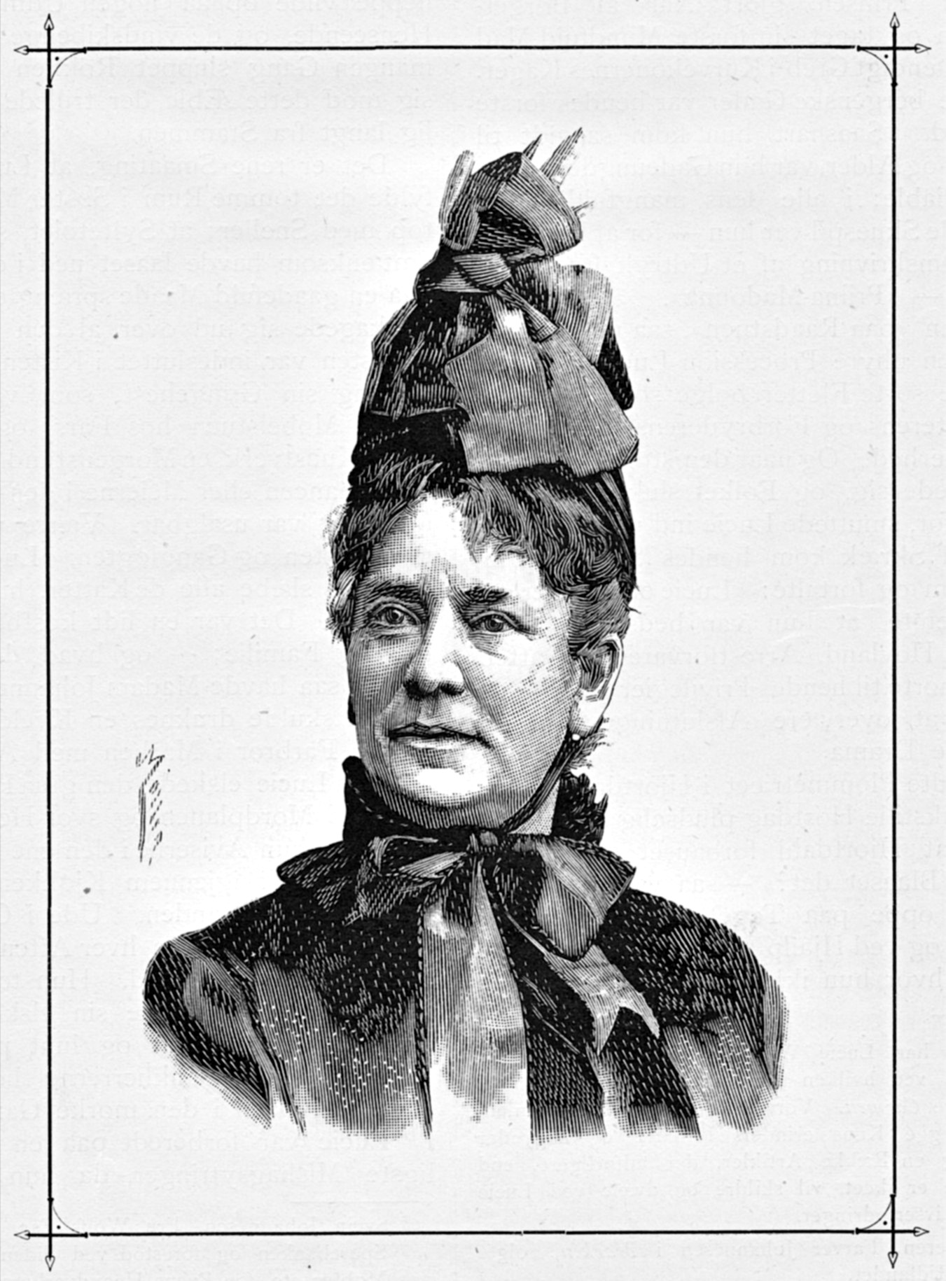 Portrait of actress Lucie Wolf by engraver Albert Møller (1864–1922) published 1891 in the journal Skilling-Magazin.